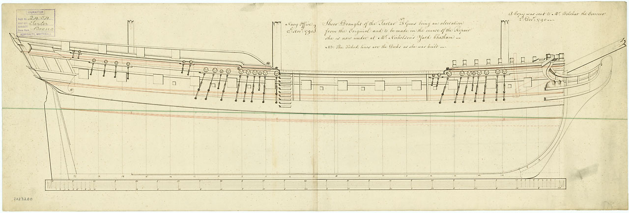 Tartar (1757) Scale 1:48. Plan showing sheer lines and only one water line for Tartar (1757), a 28-gun, Sixth Rate Frigate, as being altered during repairs at Chatham by Mr Nicholson's Yard. The decks were raised, as shown by the ticked red lines. Annotation: top right: "A Copy was sent to Mr Belshar the Overseer 2nd December 1790." TARTAR 1756